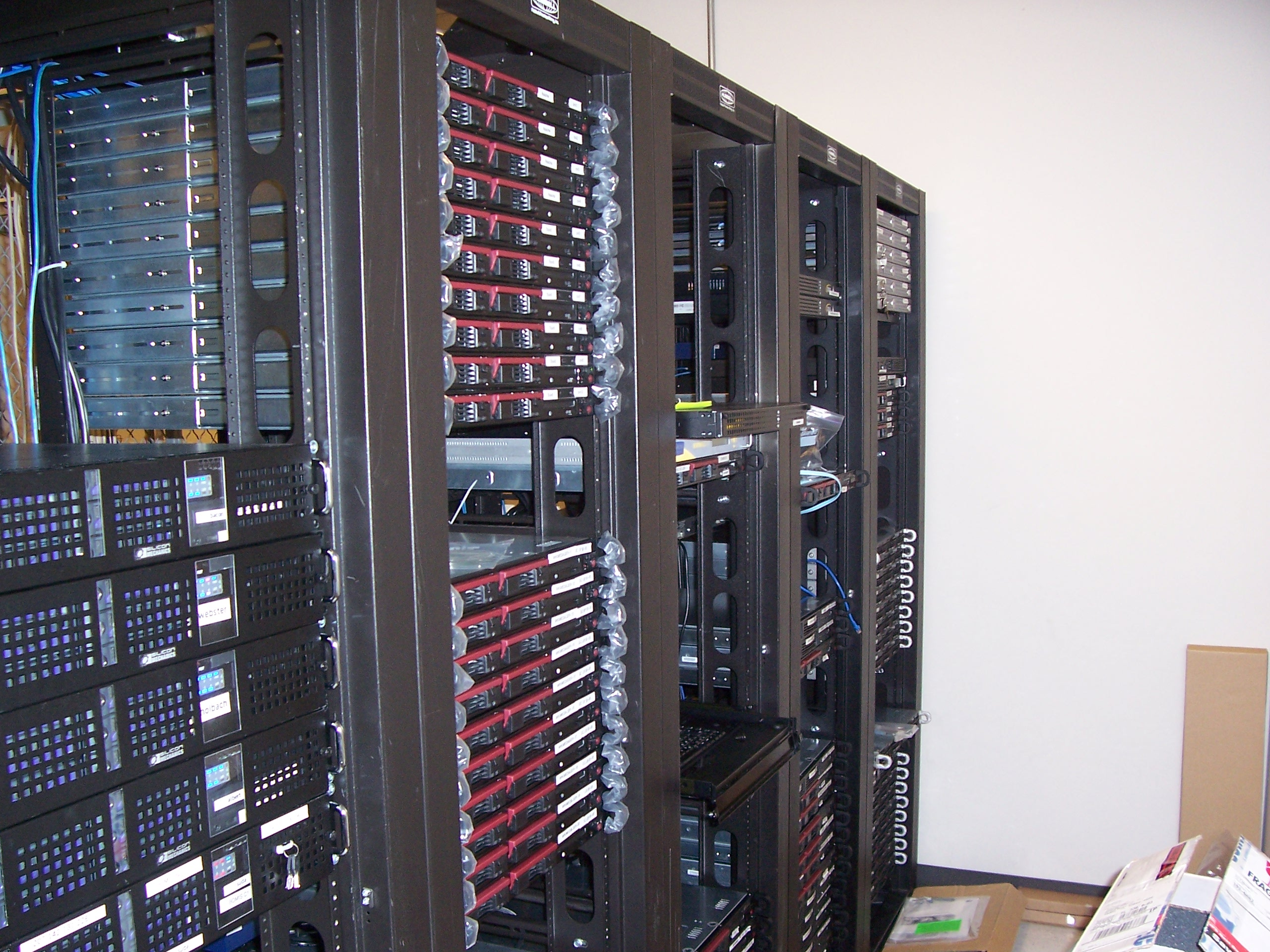 Kyle Anderson Wikimedia Servers Front, Tampa, Florida, USA